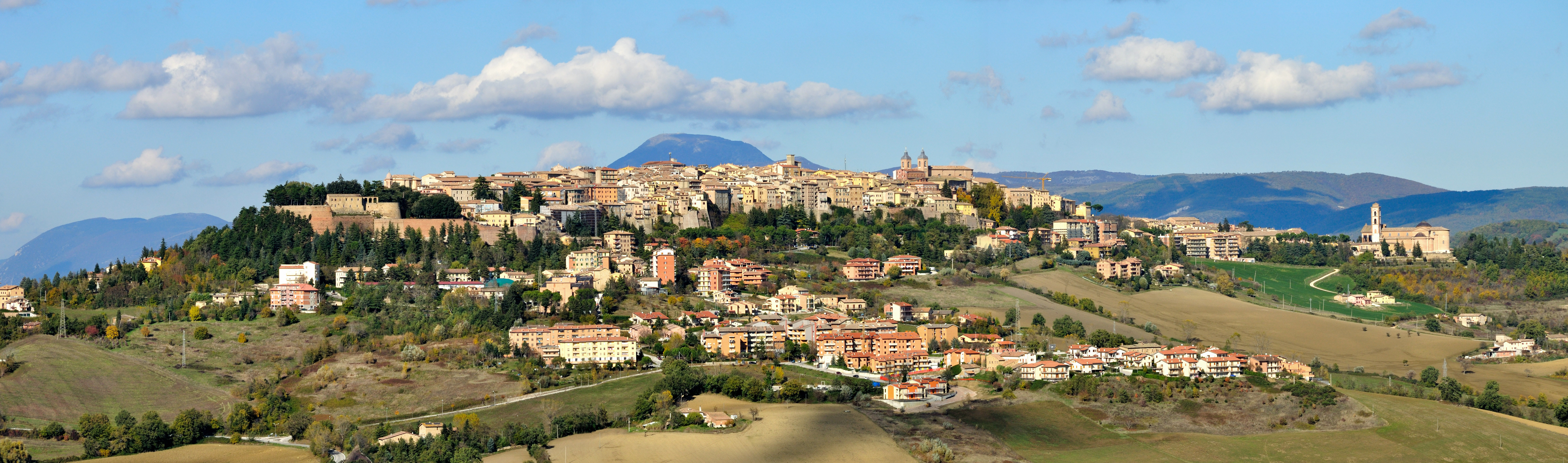 Autumnal panorama of Camerino.